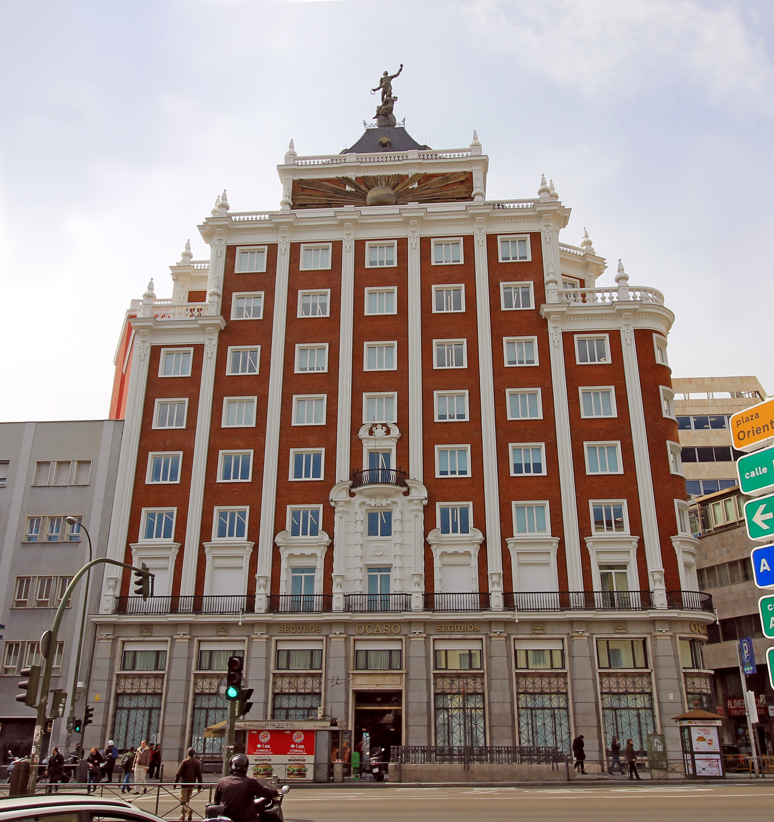 Façade of Seguros Ocaso Building in Madrid (Spain).